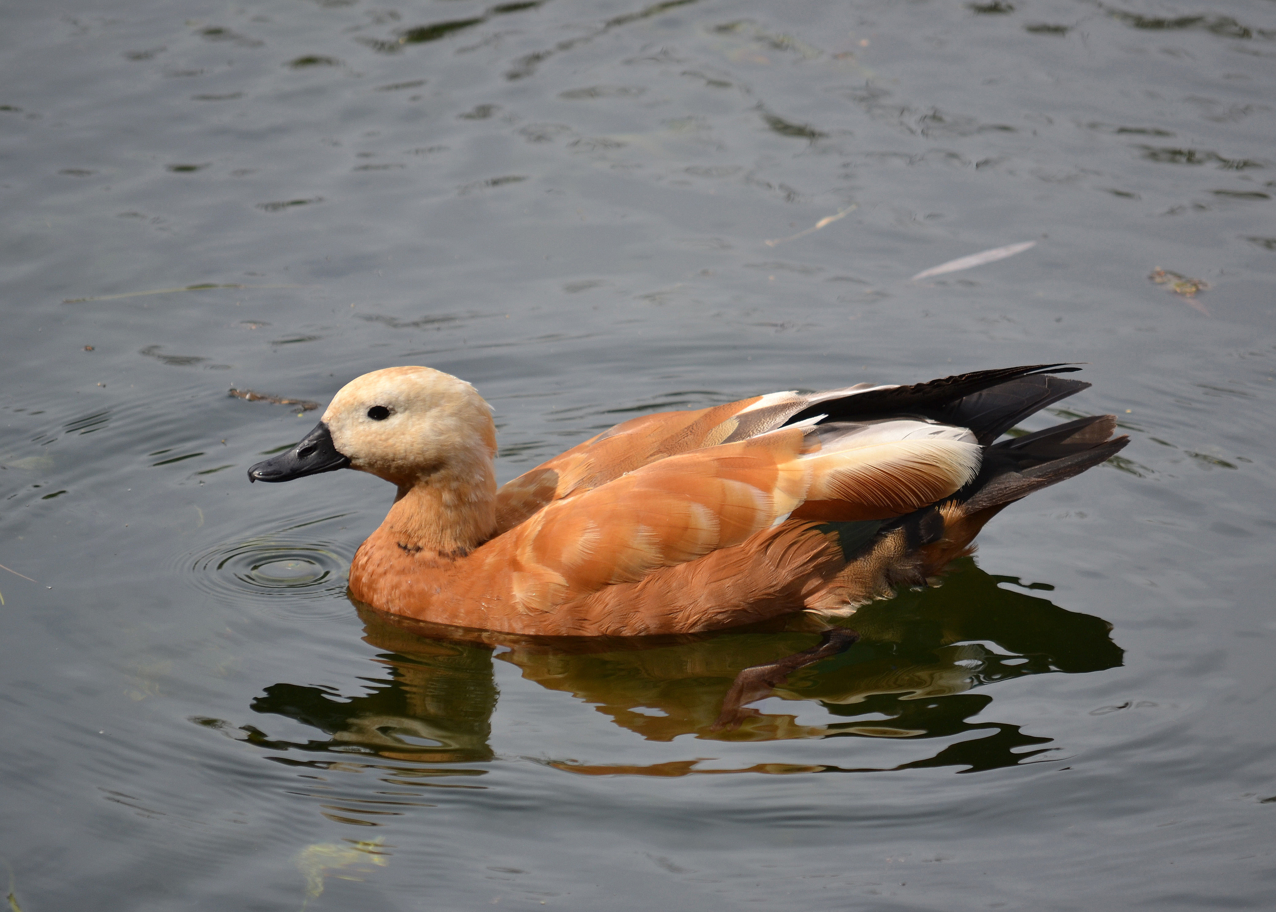 A ruddy shelduck (Tadorna ferruginea). The photo was taken 15 July 2014 in Korolyov, Moscow Oblast, on the pond in Kostino district.